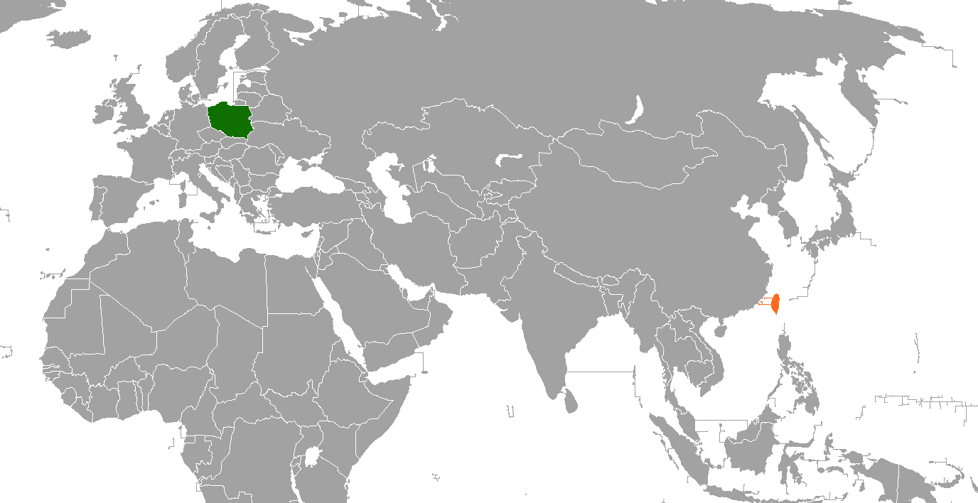 Map showing the locations of both Poland and Taiwan